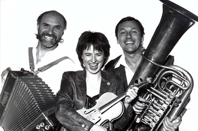 Bairisch Diatonischer Jodelwahnsinn 1993 Foto: Christoph A. Hellhake